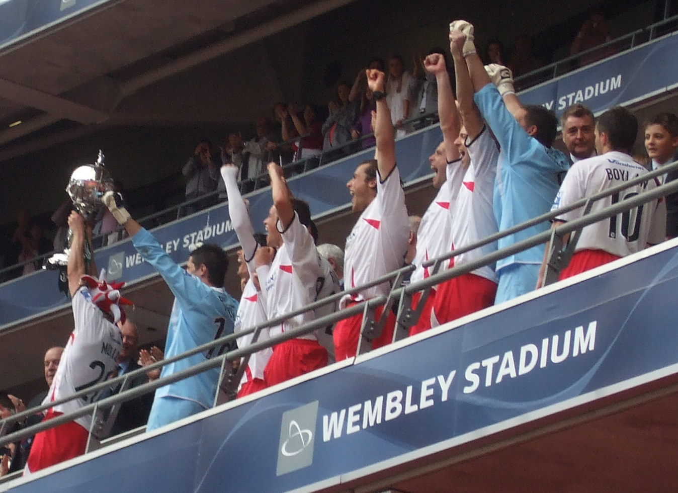 Stevenage Borough players after the FA Trophy final in 2009